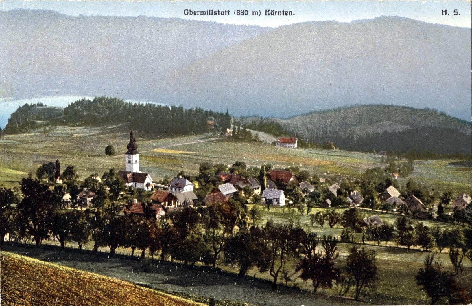 Obermillstatt a village in the community of Millstatt (Millstätter See), district Spittal an der Drau in Carinthia / Austria / EU. The old coloured litho postcard shows the village in spring towards south.